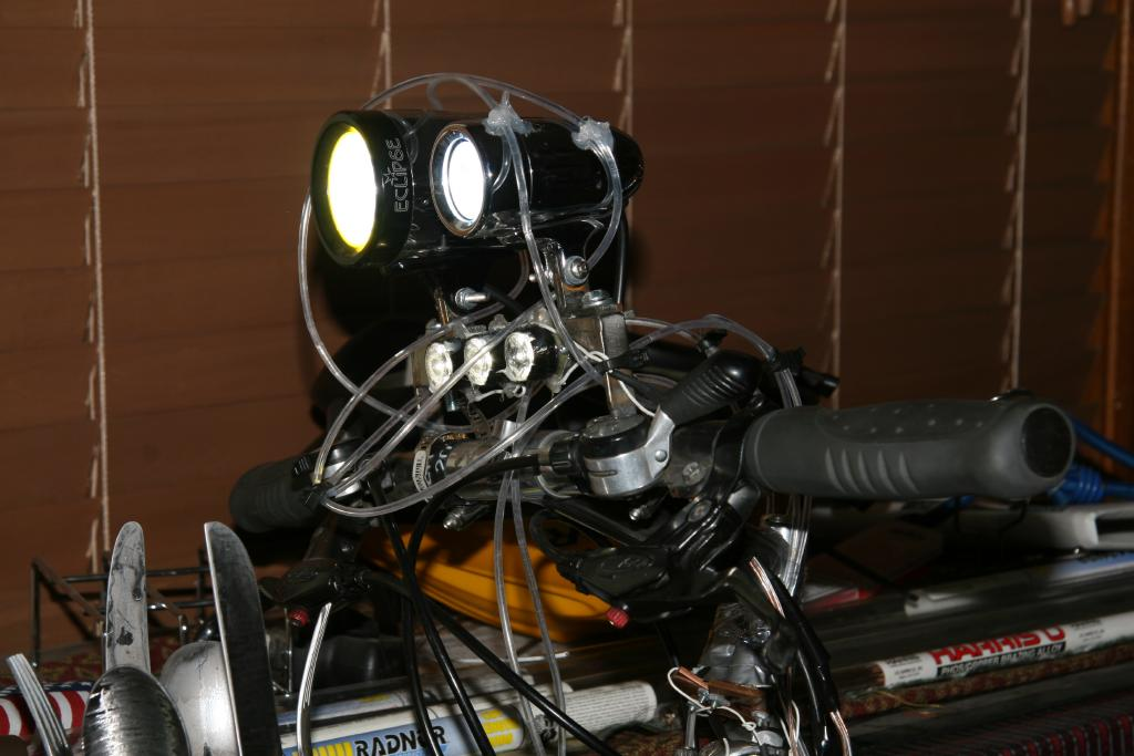 Homebrew HID lighting system consisting of two HID lights (a 10 watt light on the right and a 30 watt HID light on the left. The three smaller lights below the HID lights are 1 watt Luxeon LED lights.